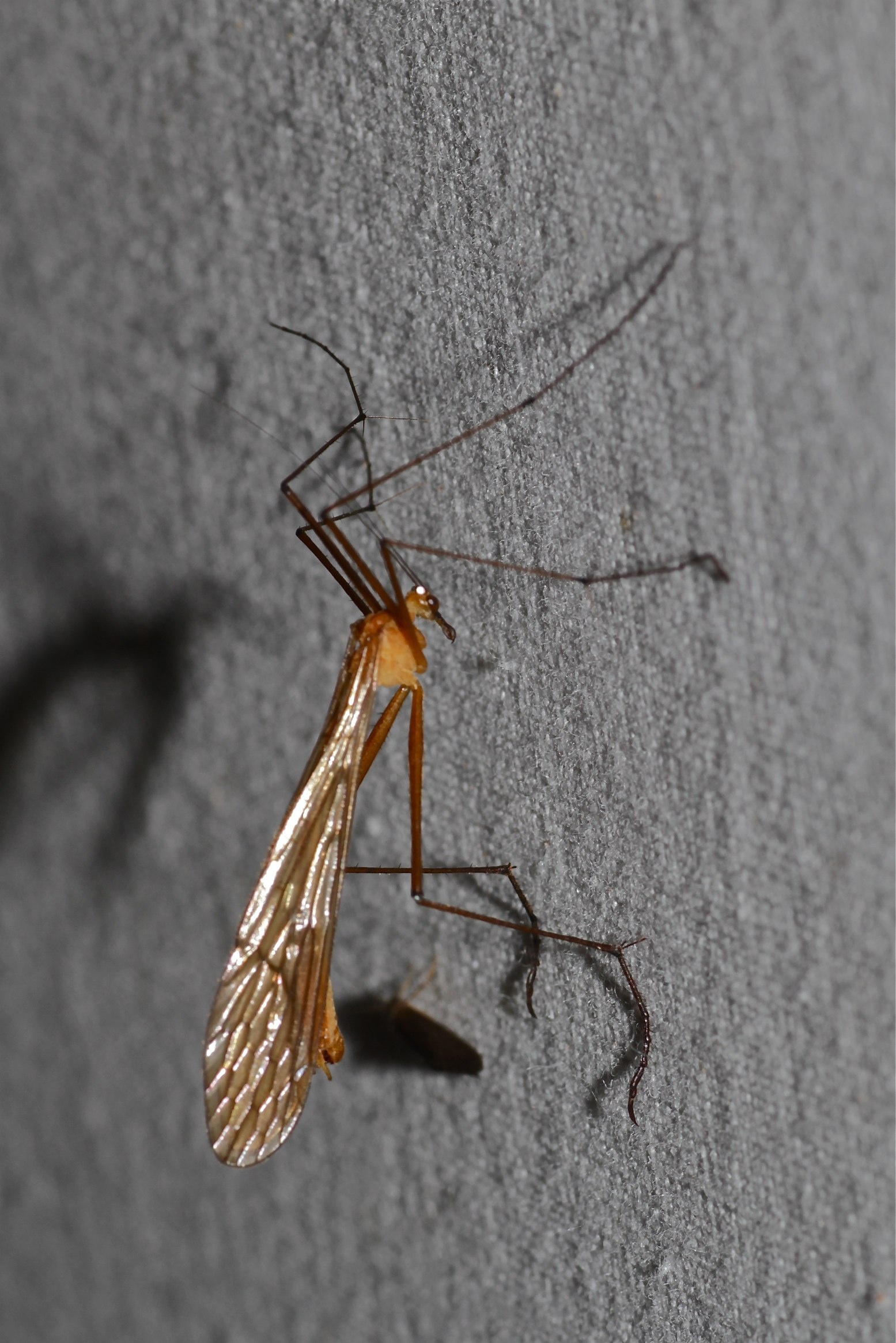 South Africa, Drakensberg, Royal Natal National Park.